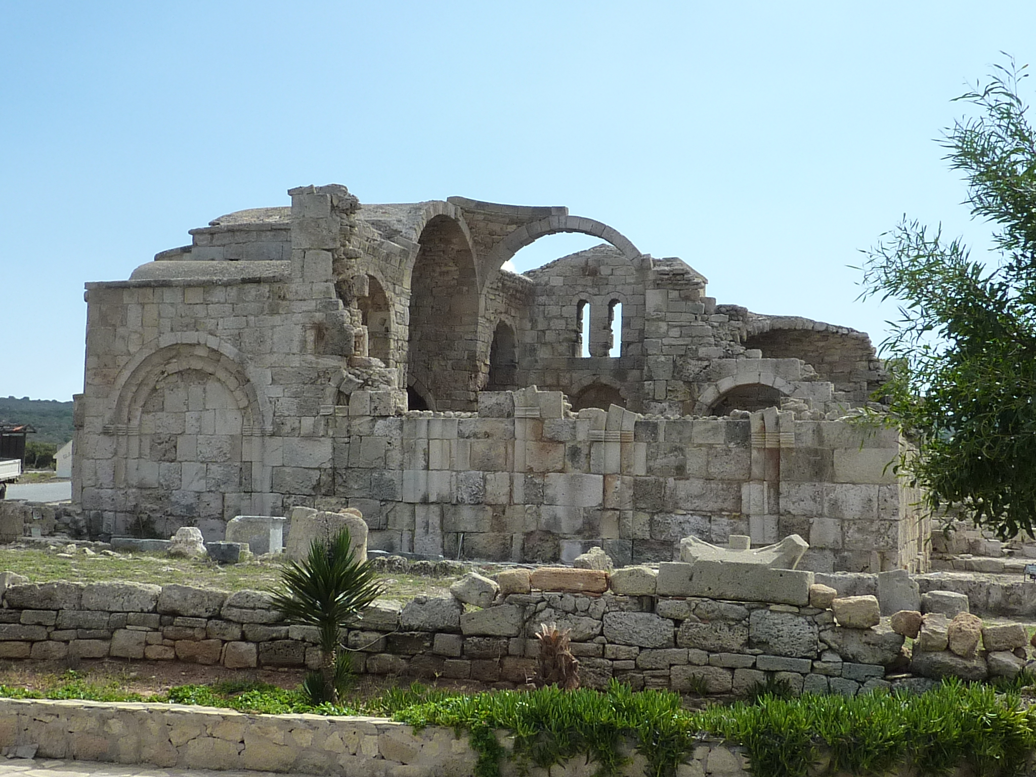 Ayios Philon, Dipkarpaz. Northern Cyprus.